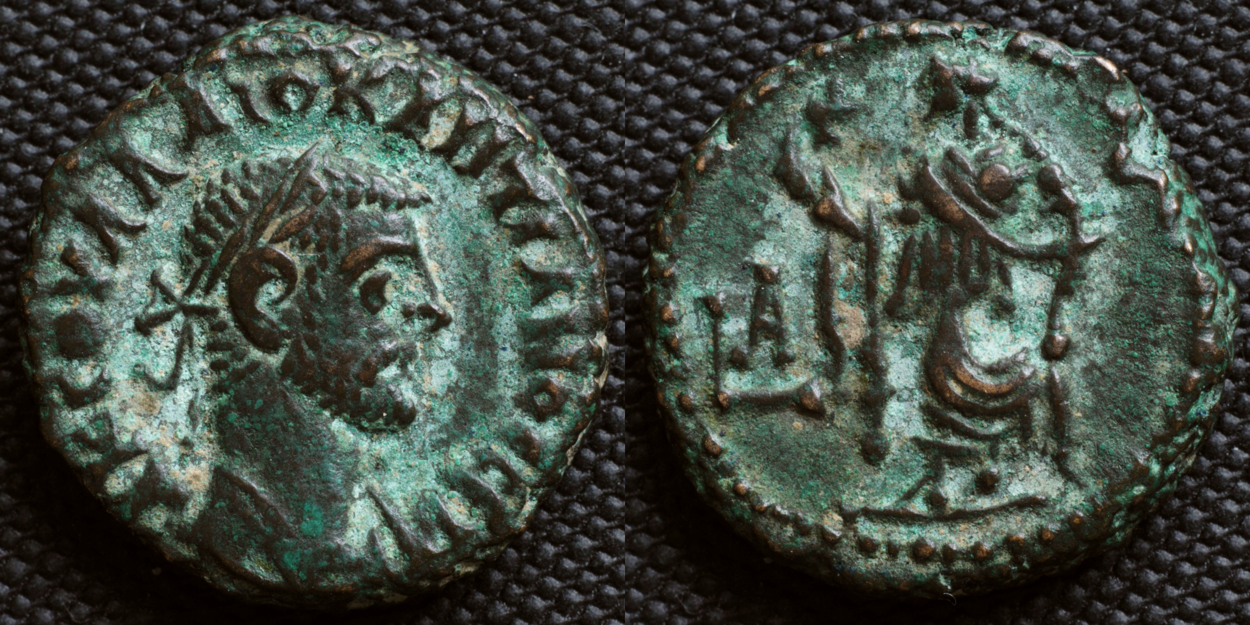 Diocletian - potin tetradrachm from Alexandria struck in 284-285 AD. Obv.: laureate, draped bust right, A K Γ OYAΛ ΔIOKΛHTIANOC CEB ; Rev.: Elpis standing left, holding flower and raising skirt, LA References: Curtis 1980; Milne 4750 weight: 7,12 g diameter: 19-18,5 mm